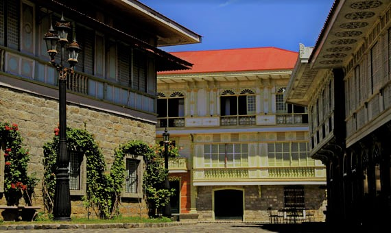 Bahay na Bato houses is Filipino architecture reflecting exactly it's history.